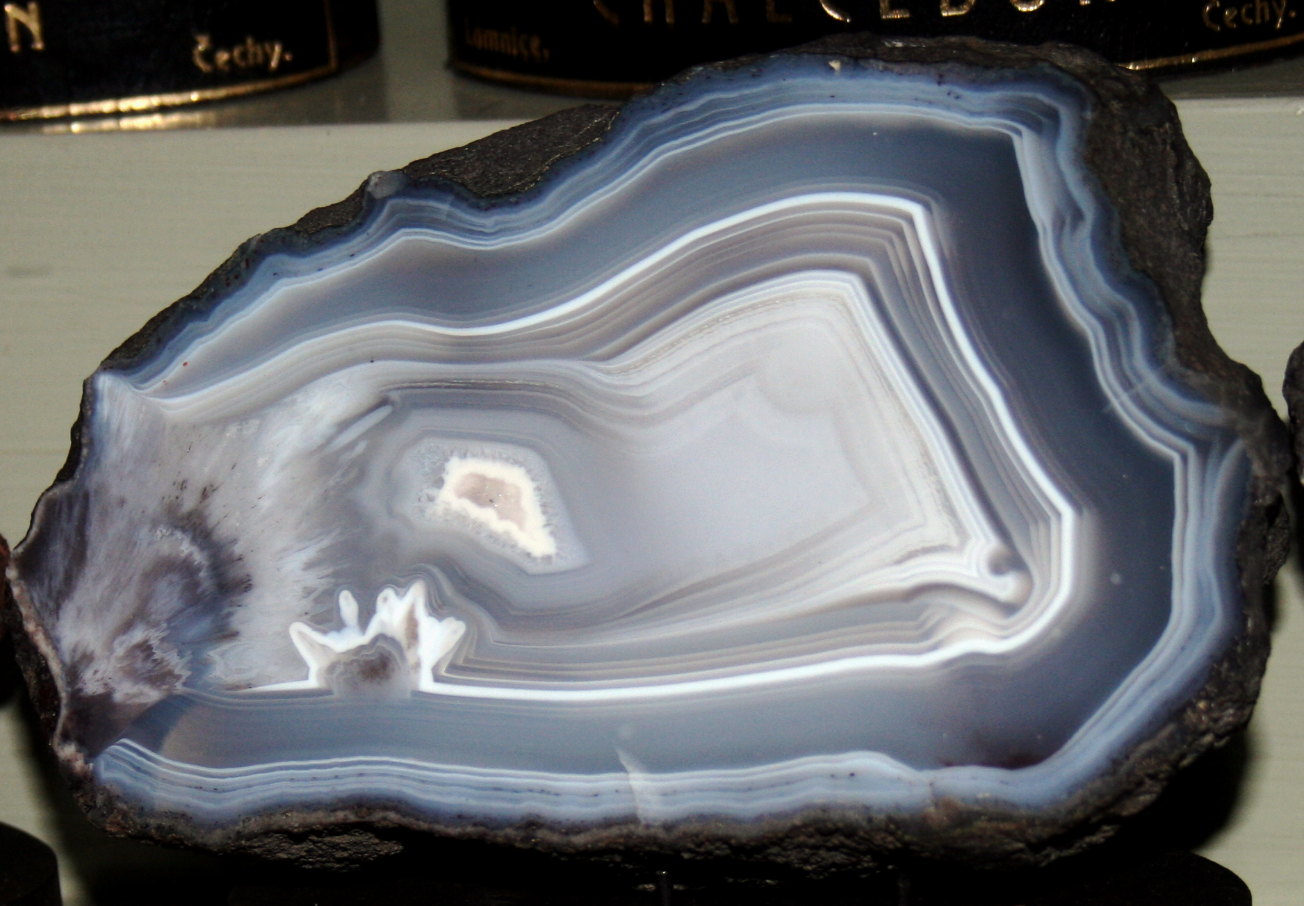 Mineral chalcedony, chemical composition:SiO2, from collection of National Museum, Prague, originally from Czech Republic